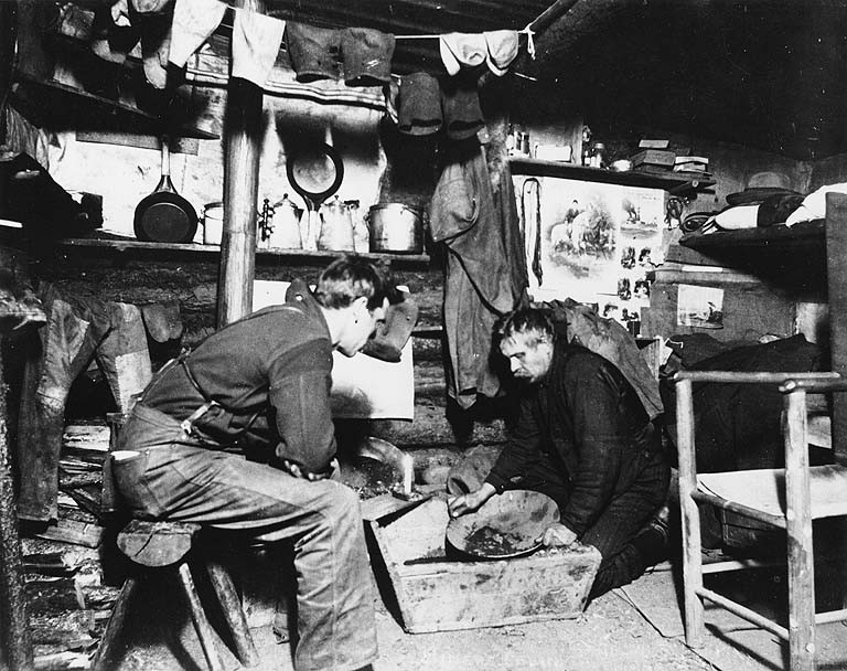 Shows clothes hanging up to dry and pots and pans in the background . Klondike Gold Rush. Subjects (LCTGM): Gold mining--Yukon; Gold miners--Yukon; Gold mining equipment--Yukon; Log cabins--Yukon; Furnishings Subjects (LCSH): Yukon--Gold discoveries